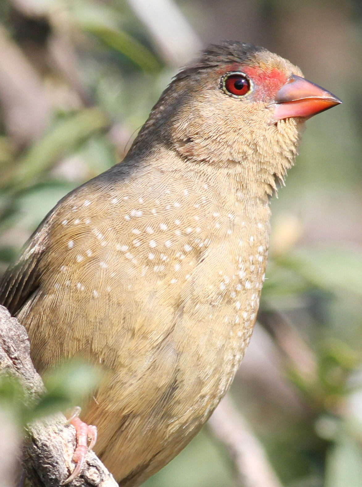 Red-billed firefinch, Lagonosticta senegala, at Mapungubwe National Park, Limpopo, South Africa -- female